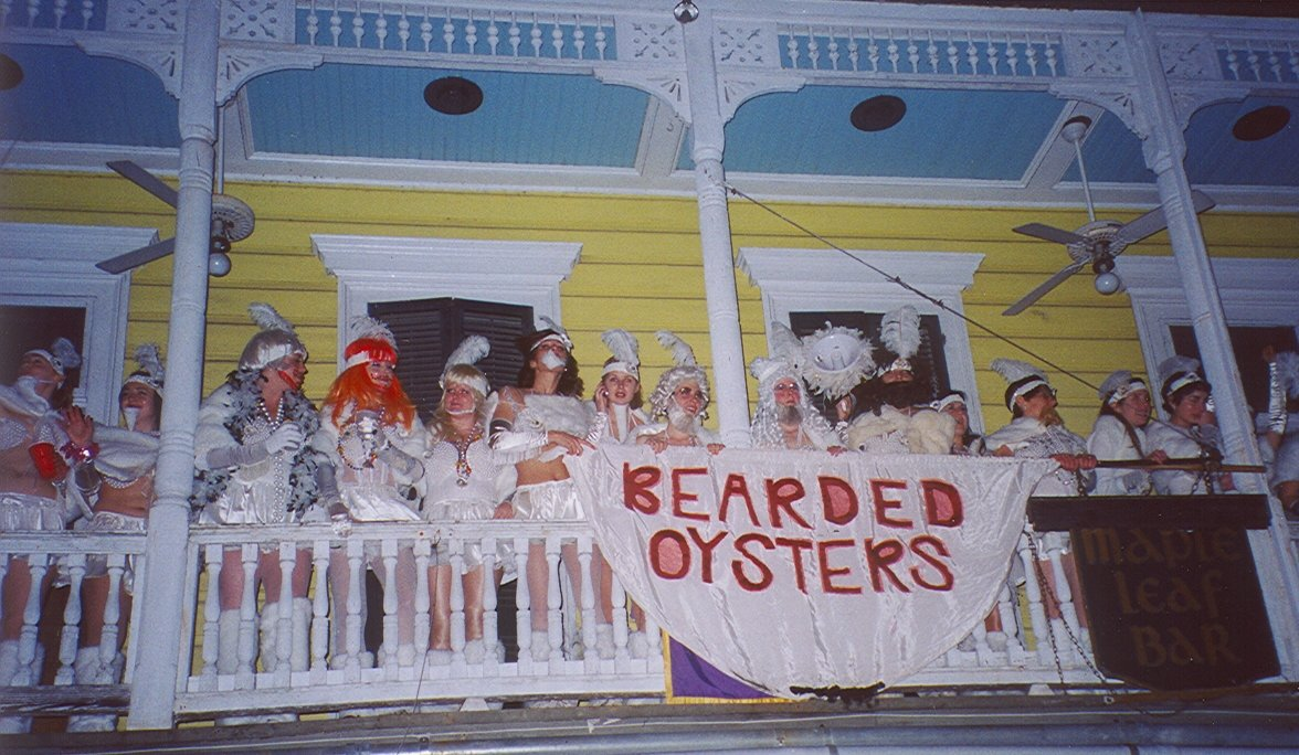 Costumers of the "Bearded Oysters" dance troupe on a balcony before the "Krewe of OAK" parade for Carnival celebration, New Orleans. Photo by Infrogmation, 4 February, 2005.